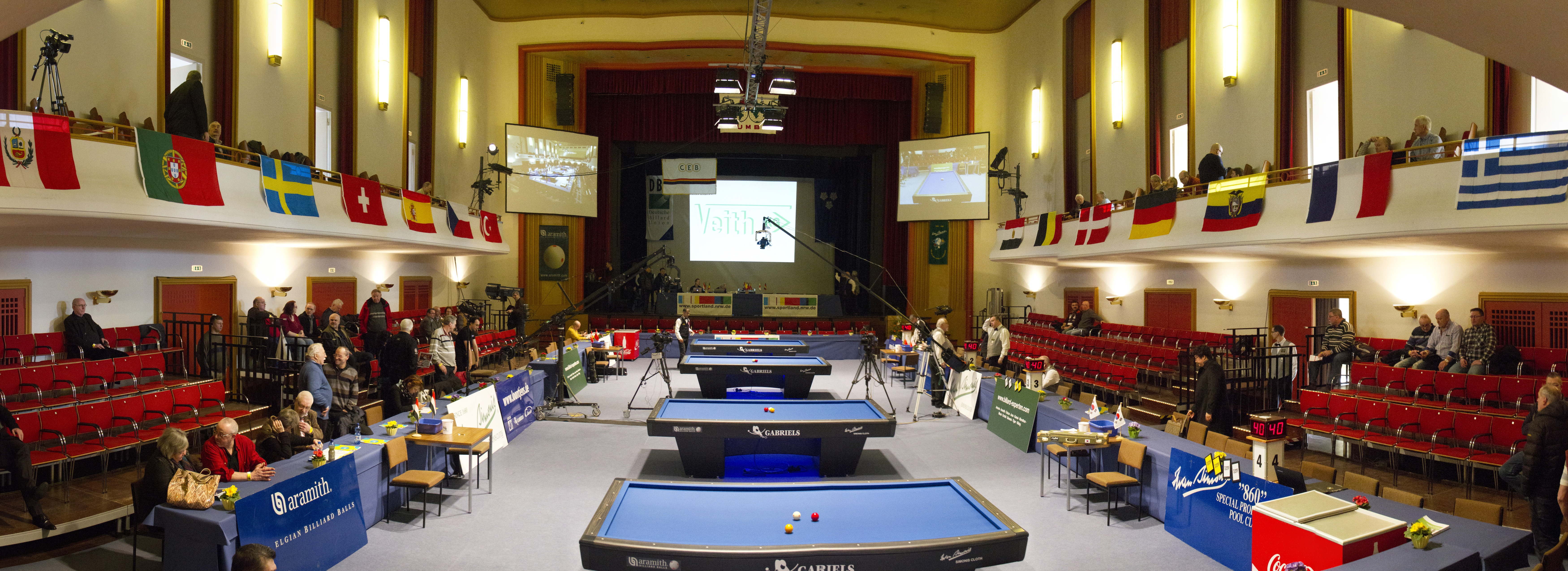 Stitched Panorama